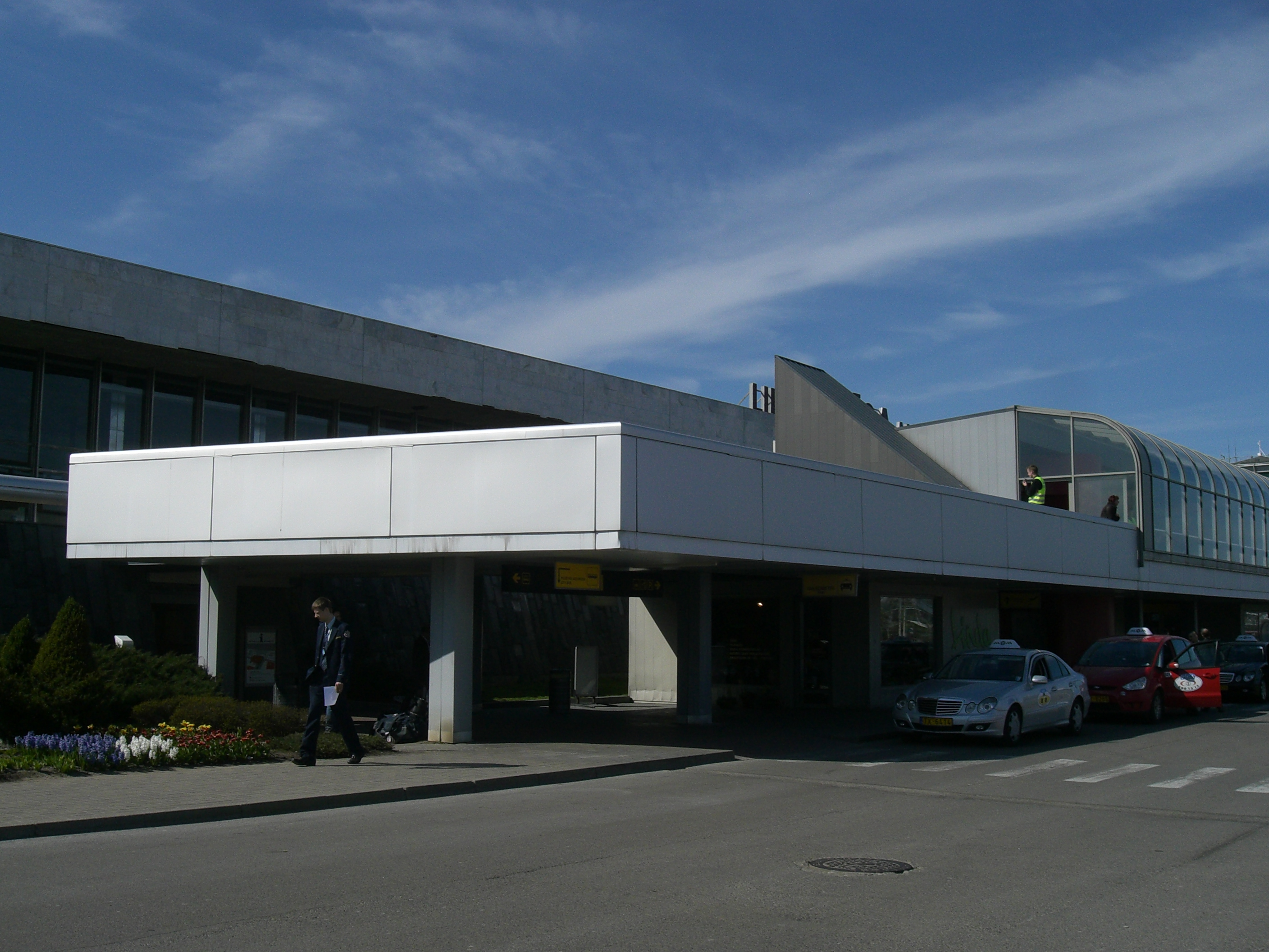 Riga International Airport, Latvia.